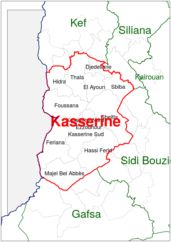 Kasserine Governorate (Tunisia) with neighboring governorates